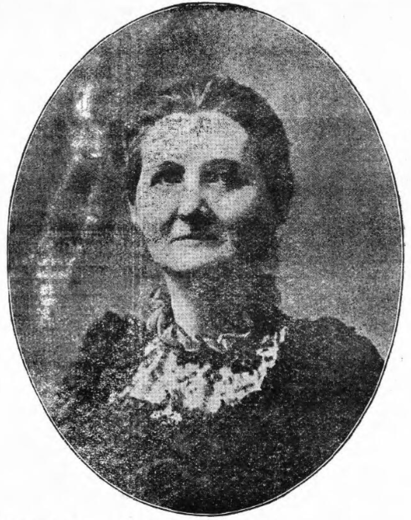 A black-and-white photograph of a middle-aged white woman in an oval frame.